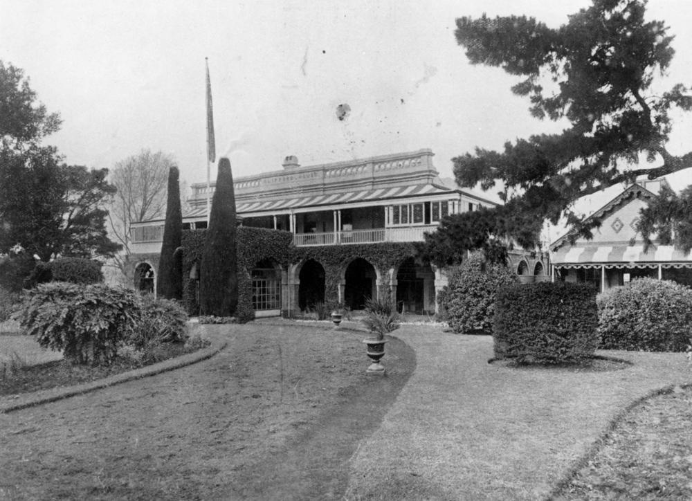 Manicured hedges and lawns at Clifford House in Toowoomba. Queensland, ca. 1908. This view of the front entrance, viewed from the circular driveway, shows trimmed trees and hedges and a sandstone parapet with a central panel with the words 'Clifford House', flanked by a decorative railing. The residence of Mr James Taylor of Toowoomba is on Russell Street. Mr Taylor played an important role on the Darling Downs and built the 1860s.